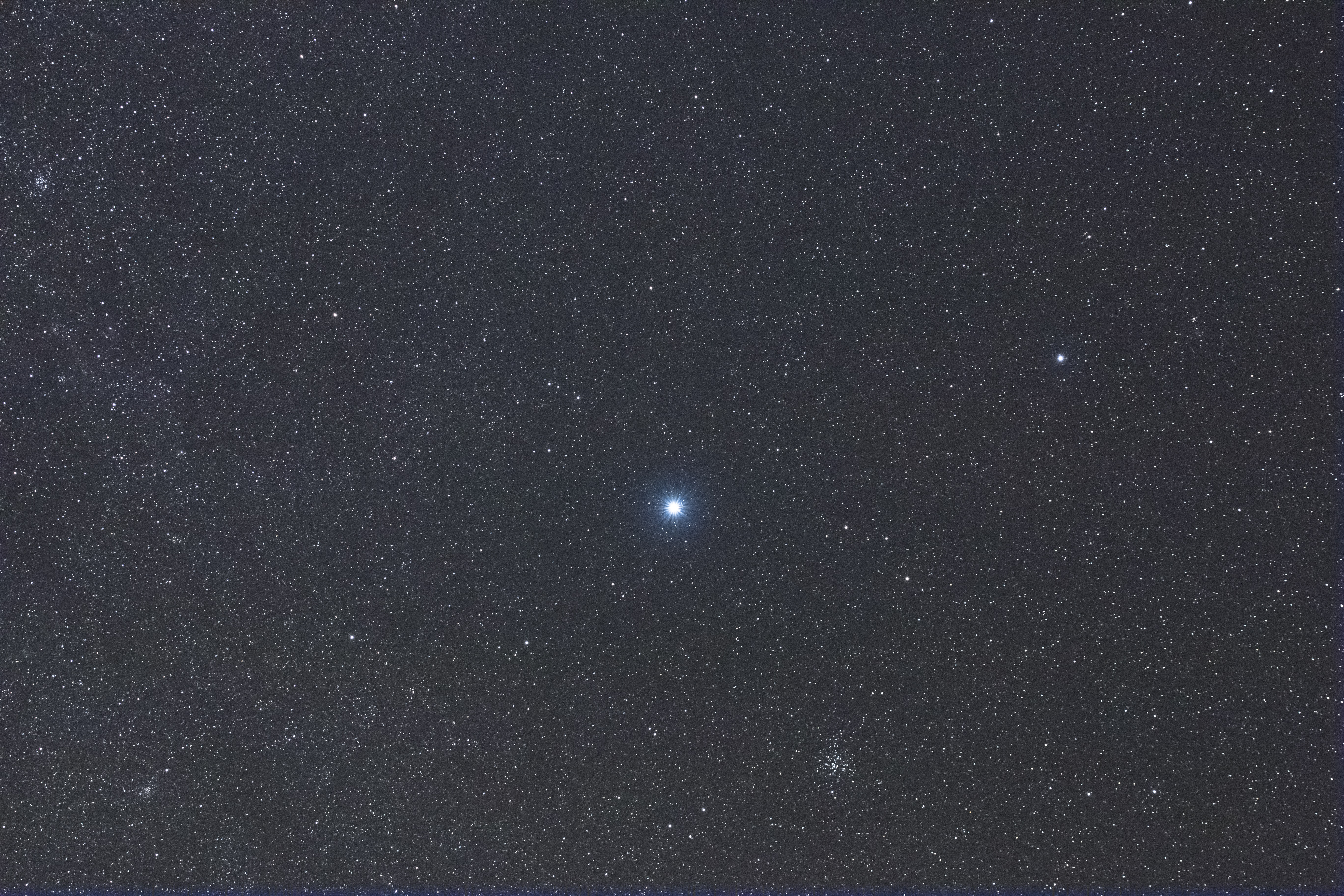 Sirius (α CMa), Mirzam (β CMa) on the right, and star clusters M41 (lower right), M50 (upper left), and NGC 2360 (lower left).